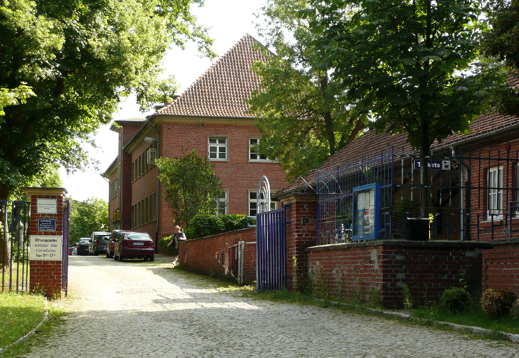 Entrance to Hanover Tram Museum at Wehmingen